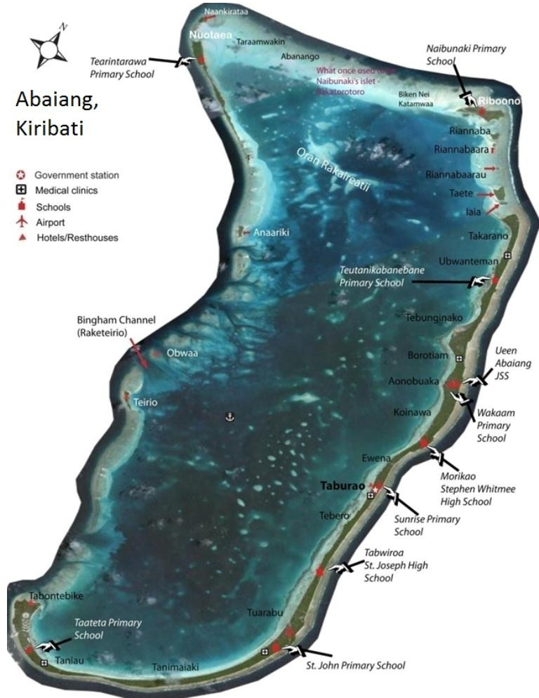 Astronaut photo of Abaiang, Kiribati, with villages and main landmarks